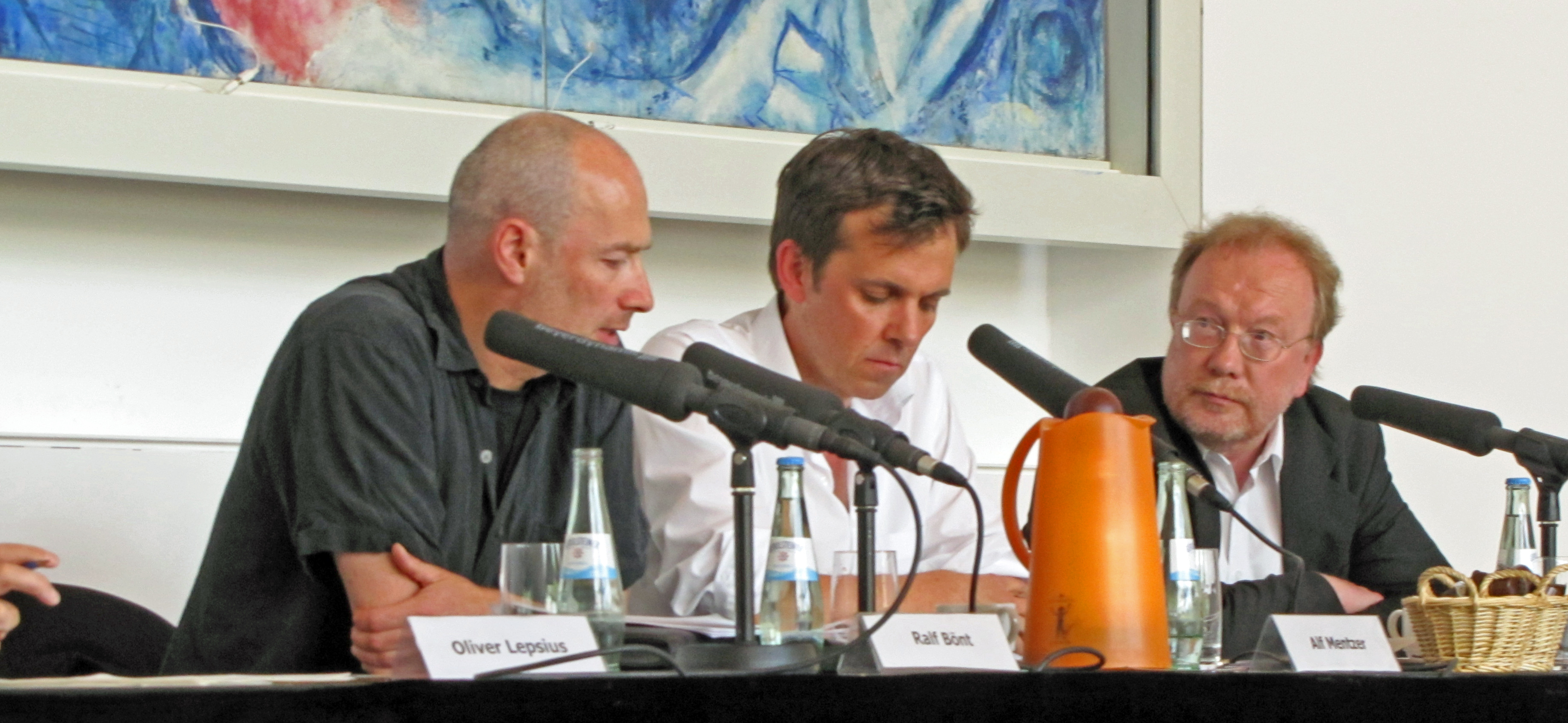 Ralf Boent, Alf Mentzer and Wolfgang Bonss, 2011 at "Roemerberggespraeche" (panel discussion) in Frankfurt am Main, Germany.